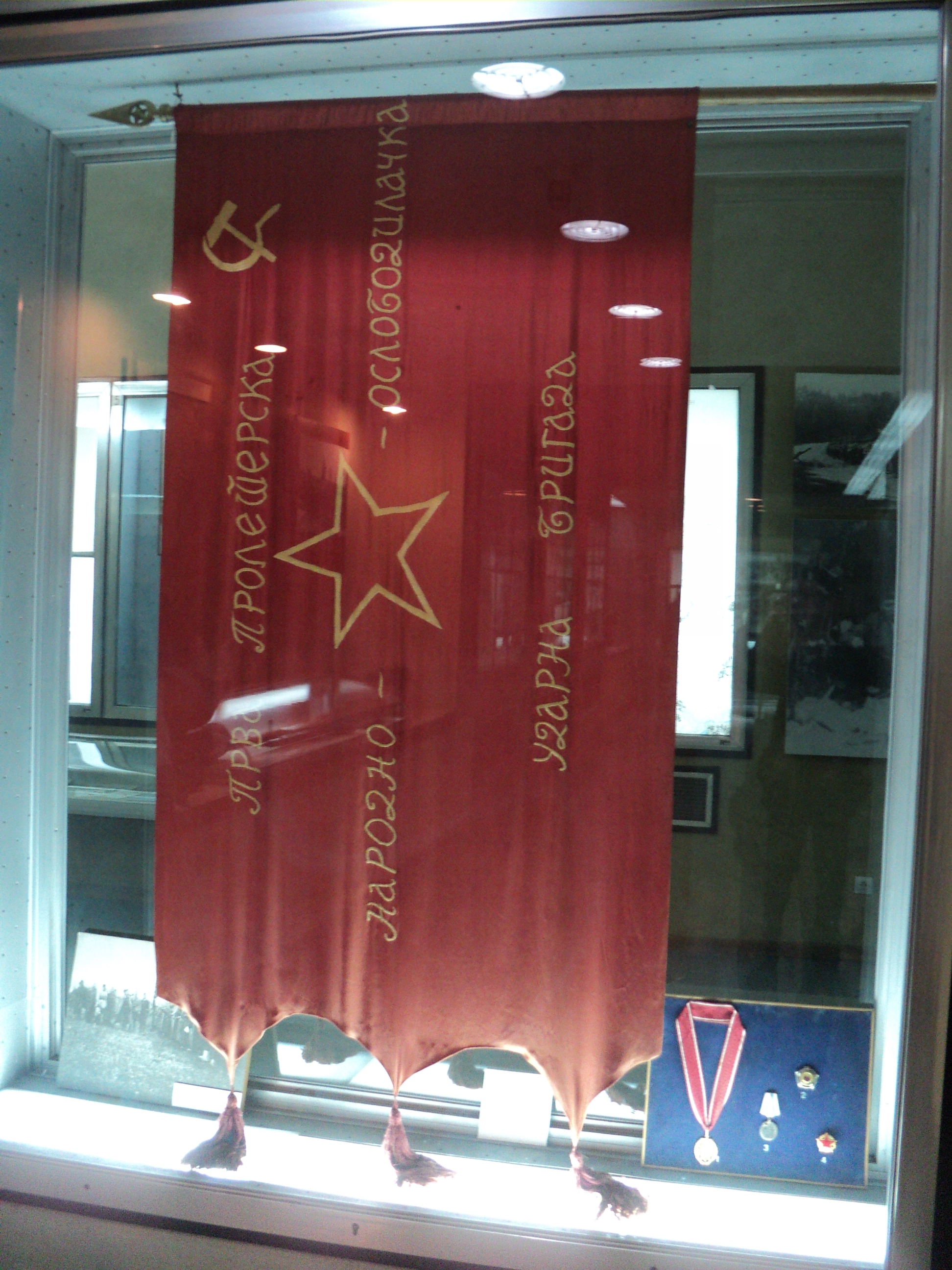 Flag and orders of the First proletarian shock brigade of Yugoslav partisans army.